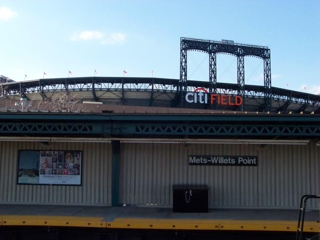 Mets - Willets Point Station with Citi Field in the background